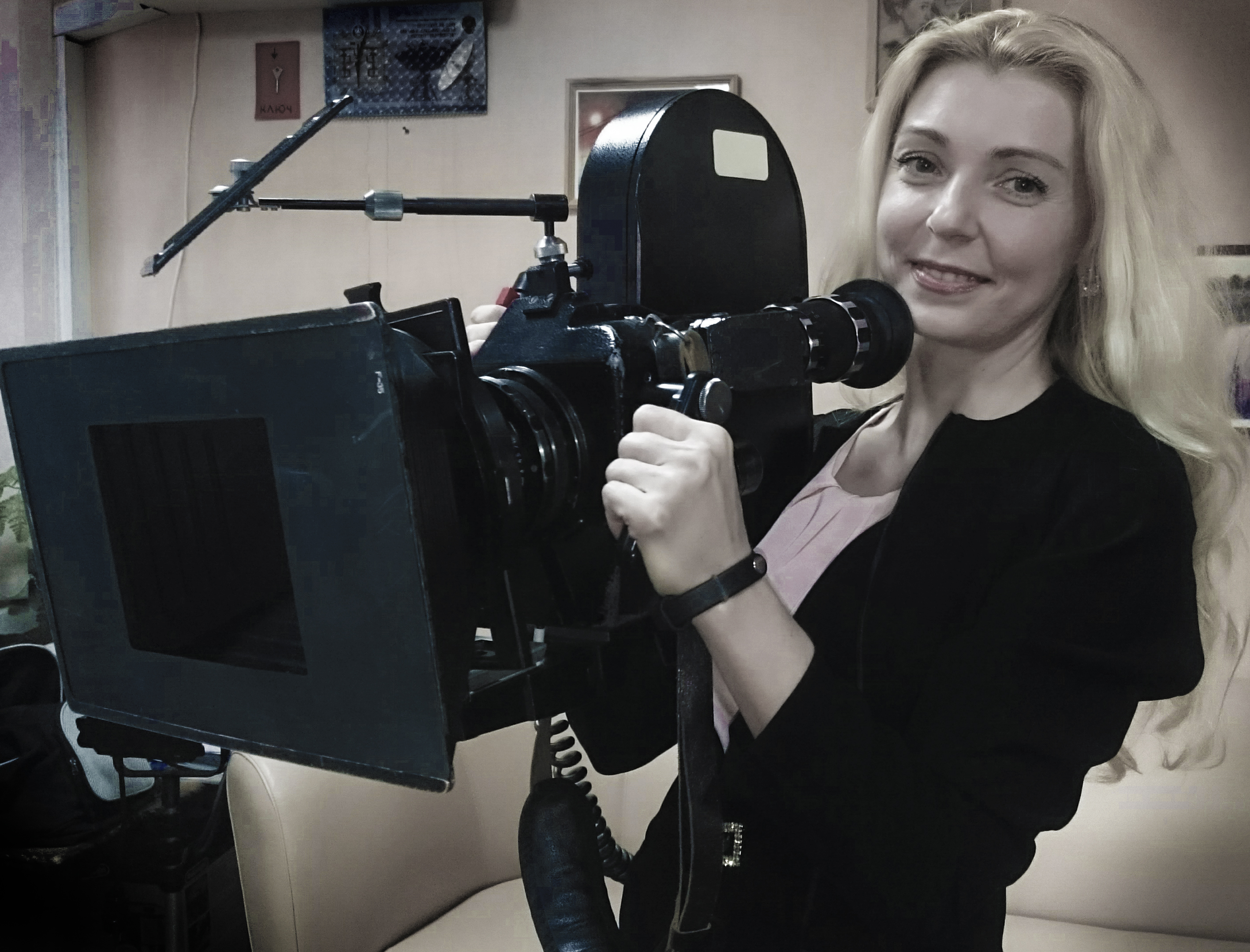 Anna Barsukova - camerawoman